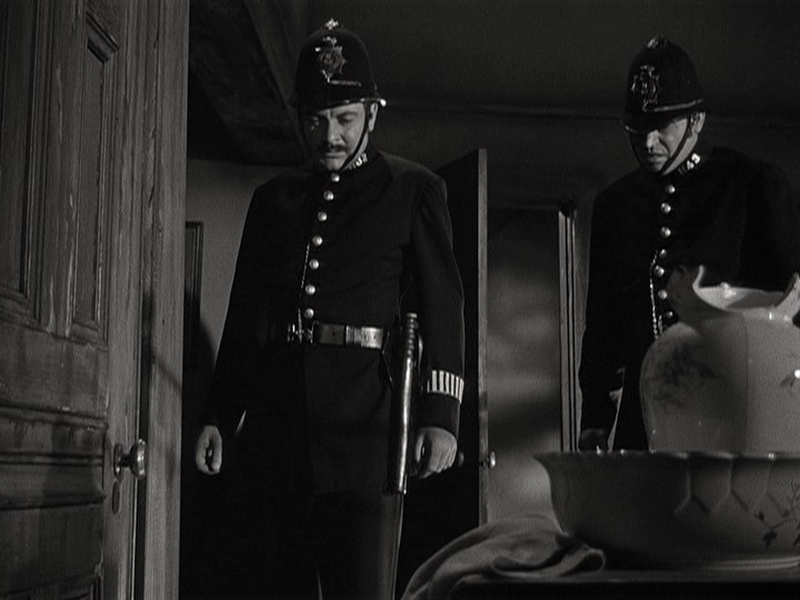 Leslie Bradley left) & Sean McClory in Man in the Attic - cropped screenshot